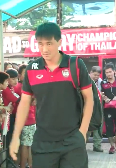 Ri Kwang-Chon before game Thai Premier League Ostospa Saraburi - Muangthong United